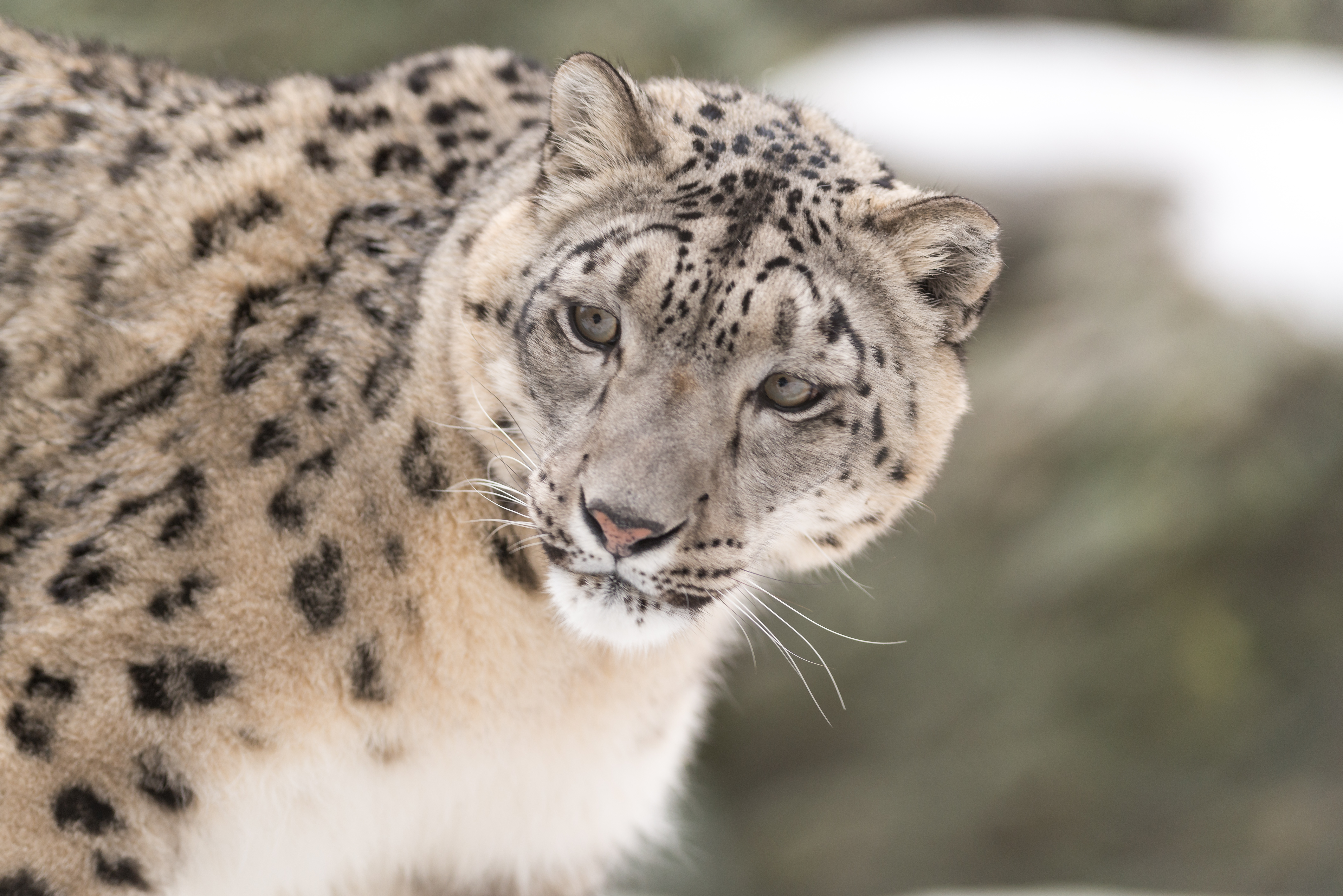 Snow Leopard Looking Back